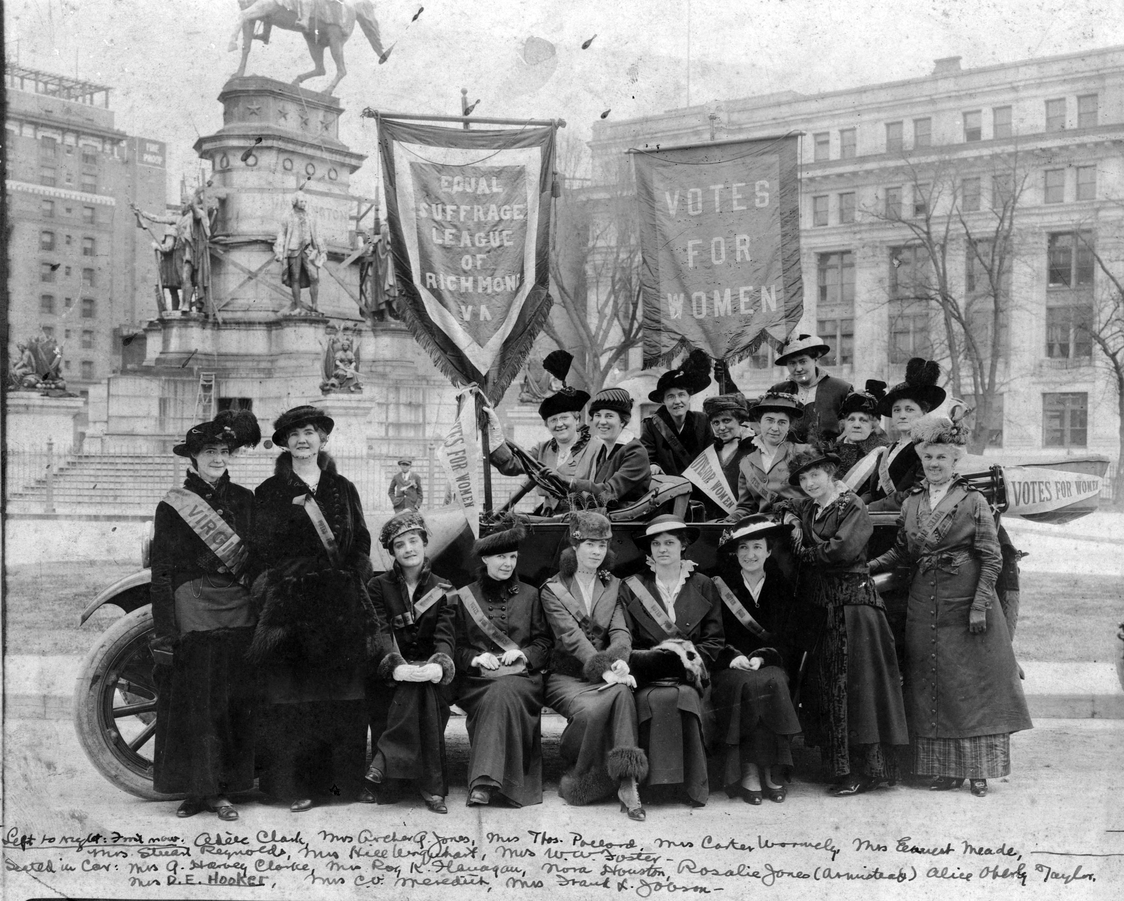 Equal Suffrage League of Richmond, Va. in front of Washington Monument, Capitol Square, Richmond. The members of the ESL were promoting the suffrage film, "Your Girl and Mine." "The members of the Equal Suffrage League photographed that day were:(left to right in car) Mrs. G. Harvey Clarke (Mary Ellen Pollard Clarke), Mrs. Roy Knight Flannagan (Lucy Catesby Jones Flannagan), Nora Houston, Mrs. John Grant Armistead (Rosalie Fontaine Jones Armistead), Mrs. Alice Overbey Taylor, Mrs. Della E. Hooker (widow of J. W. Hooker), Mrs. Charles Vivian Meredith (Sophie Meredith), Mrs. Georgia May Johnson (identified on photo as Mrs. Frank L. Johnson; perhaps Mrs. Francis L. Johnson)(left to right outside car) Adèle Clark, Mrs. Archer Gracchus Jones (Annie Boyd Jones), Mrs. John Garland Pollard (Grace Phillips Pollard), Mrs. Carter Wormeley (Sarah Harvie Wormeley), Mrs. Earnest Meade (Aline Jennings Mead(e), Mrs. Earnest C. B. Meade), Lynda McClanahan Koiner, Mrs. James Stuart Reynolds (Virginia “Boogie” Dickinson Reynolds), Mrs. W. Hill Urquhart (Dorothy Gordon Tait Urquhart), Mrs. W. W. Foster (Carrie Palmore Hughes Foster)"[1] Photo published in The Times-Dispatch: Richmond, Va., February 28, 1915, p. 10. From the Adèle Goodman Clark Papers, Special Collections and Archives, VCU Libraries.